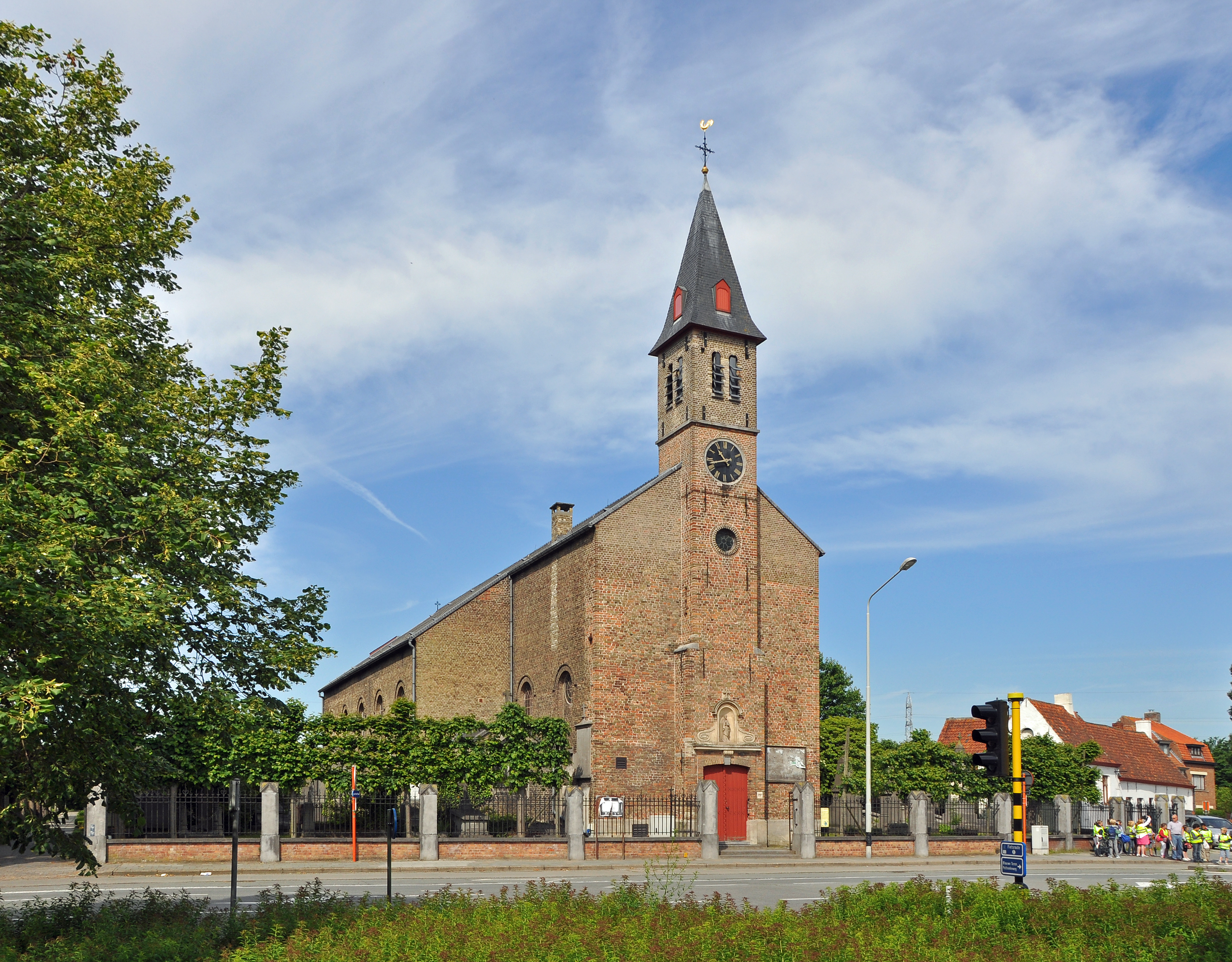 Bruges (Belgium): St Peter's church